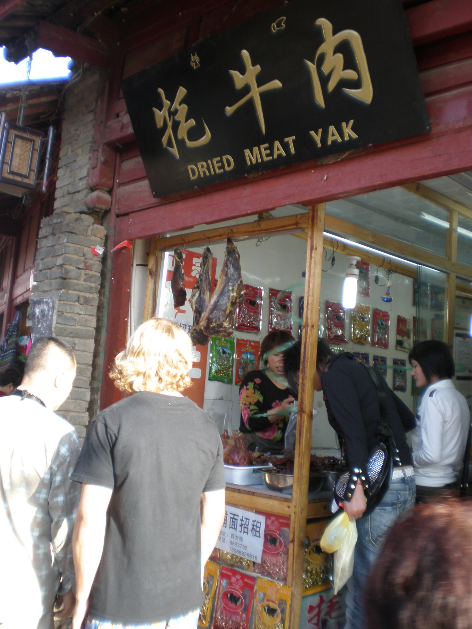 Dried Meat Yak store on Square Street in the Old Town of Lijiang, Yunnan.